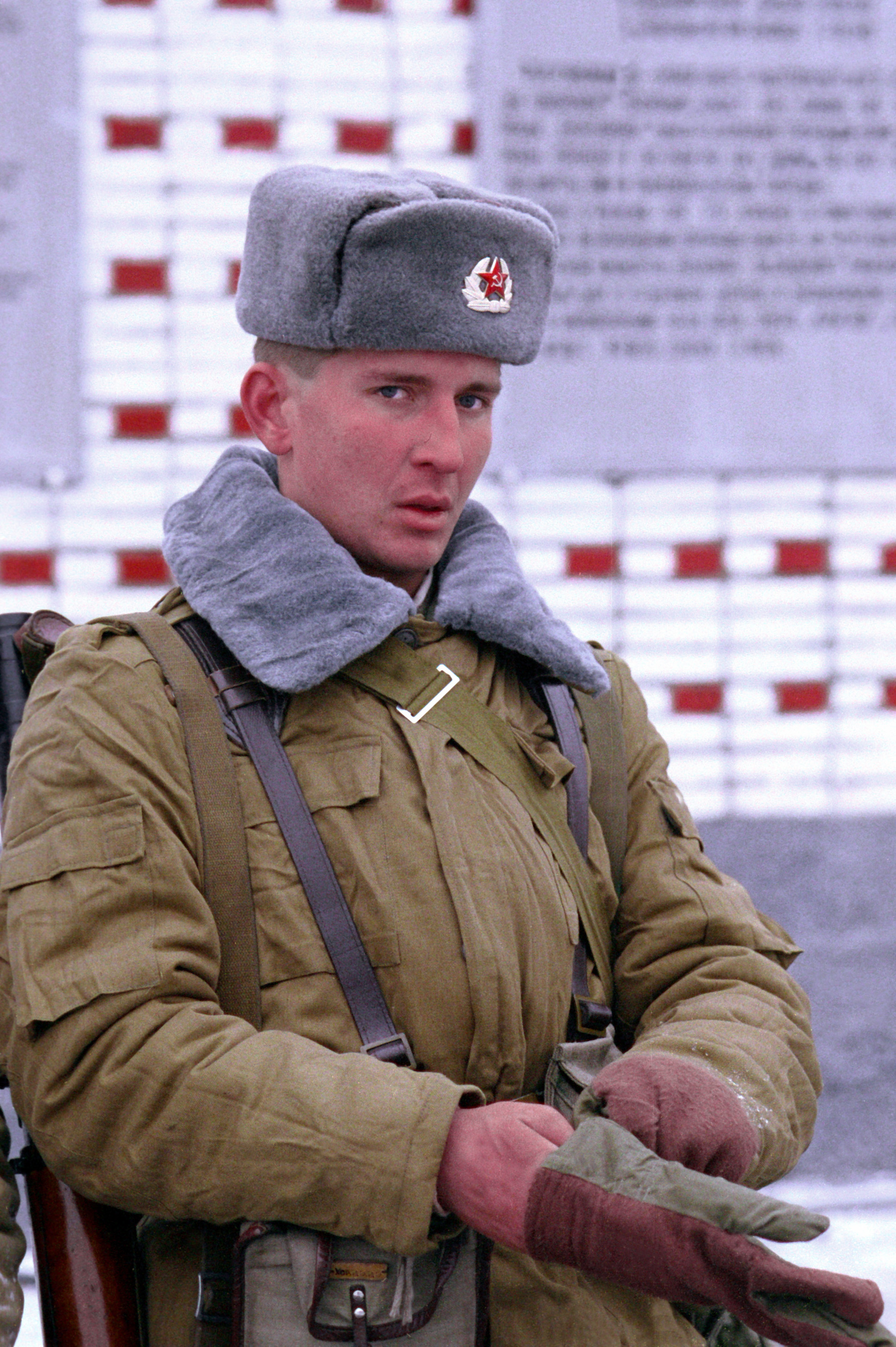 A member of the ex-Soviet army's Tamanskaya division pulls on his gloves as he prepares to take part in field maneuvers at the division's base outside Moscow.